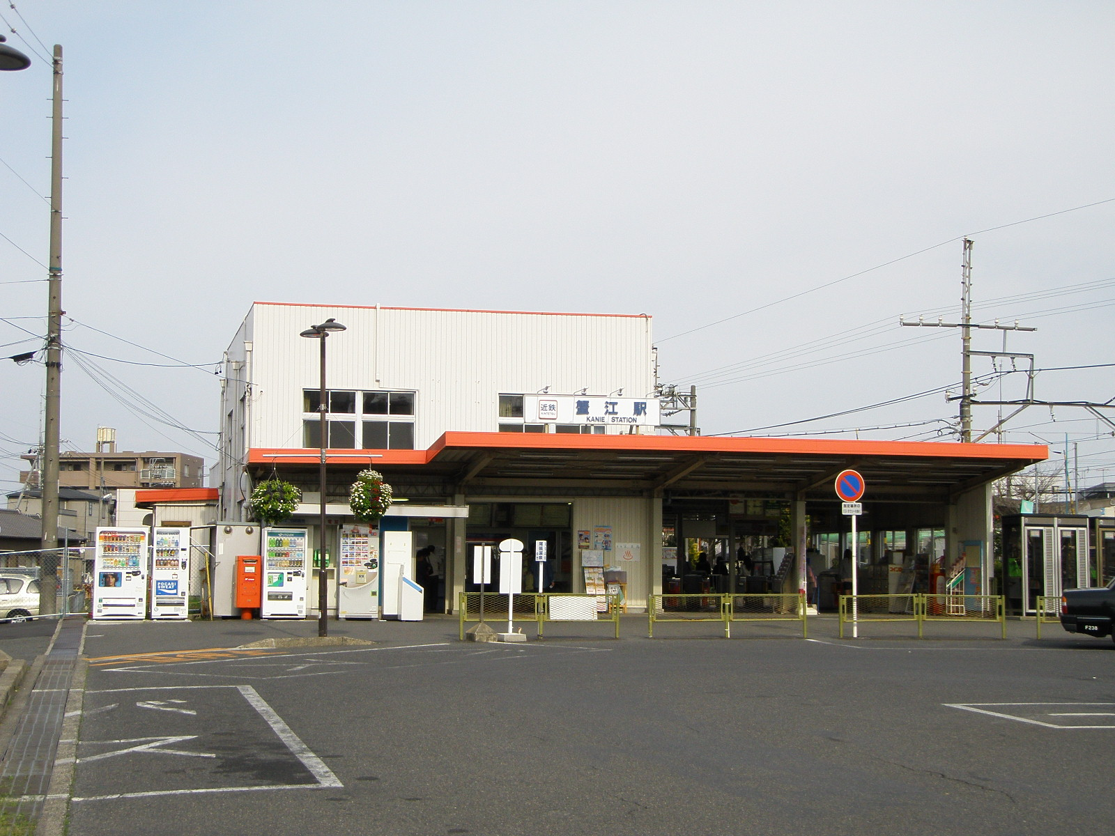 Kinki Nippon Railway Kintetsu-Kanie Station Building